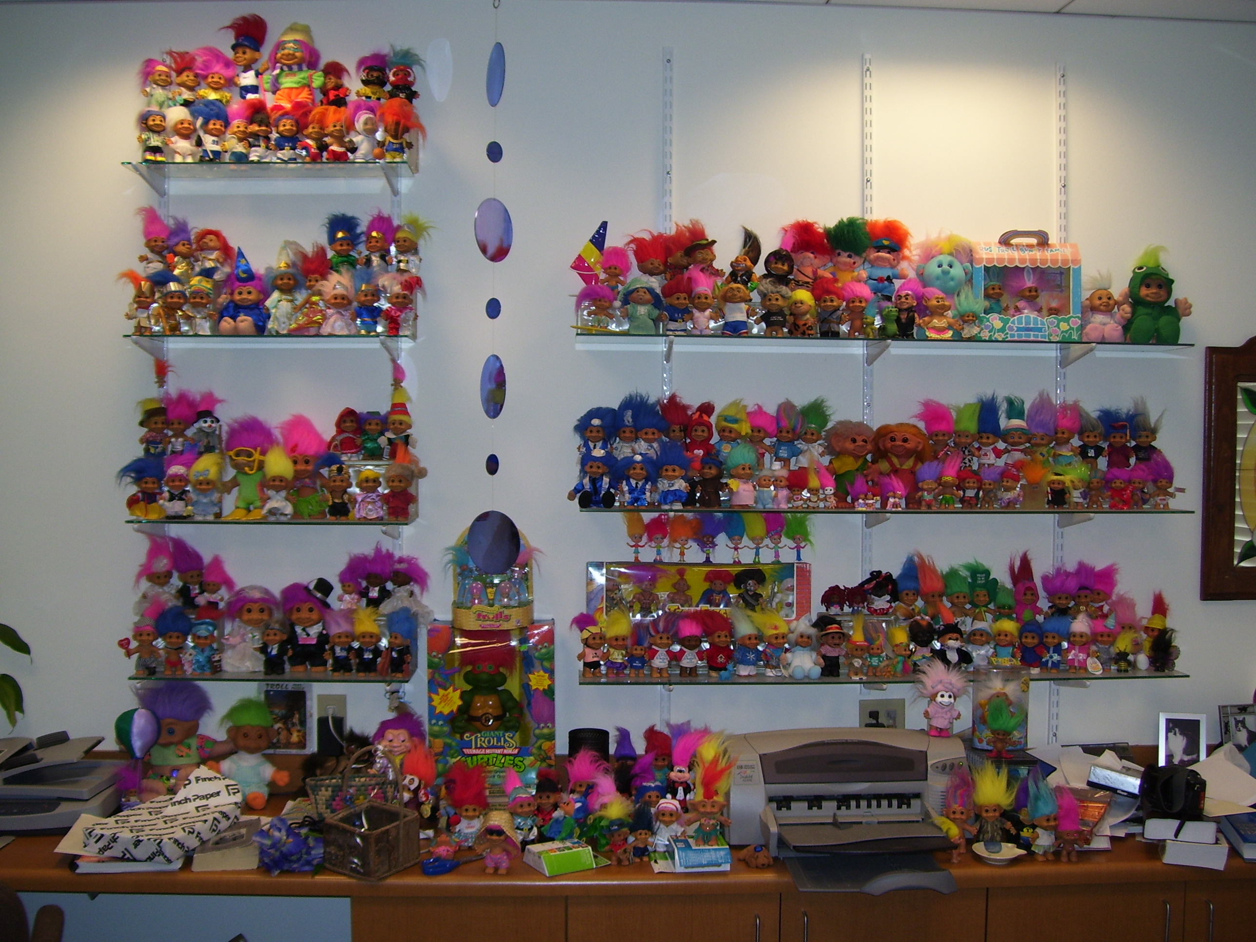 Wall of Trolls